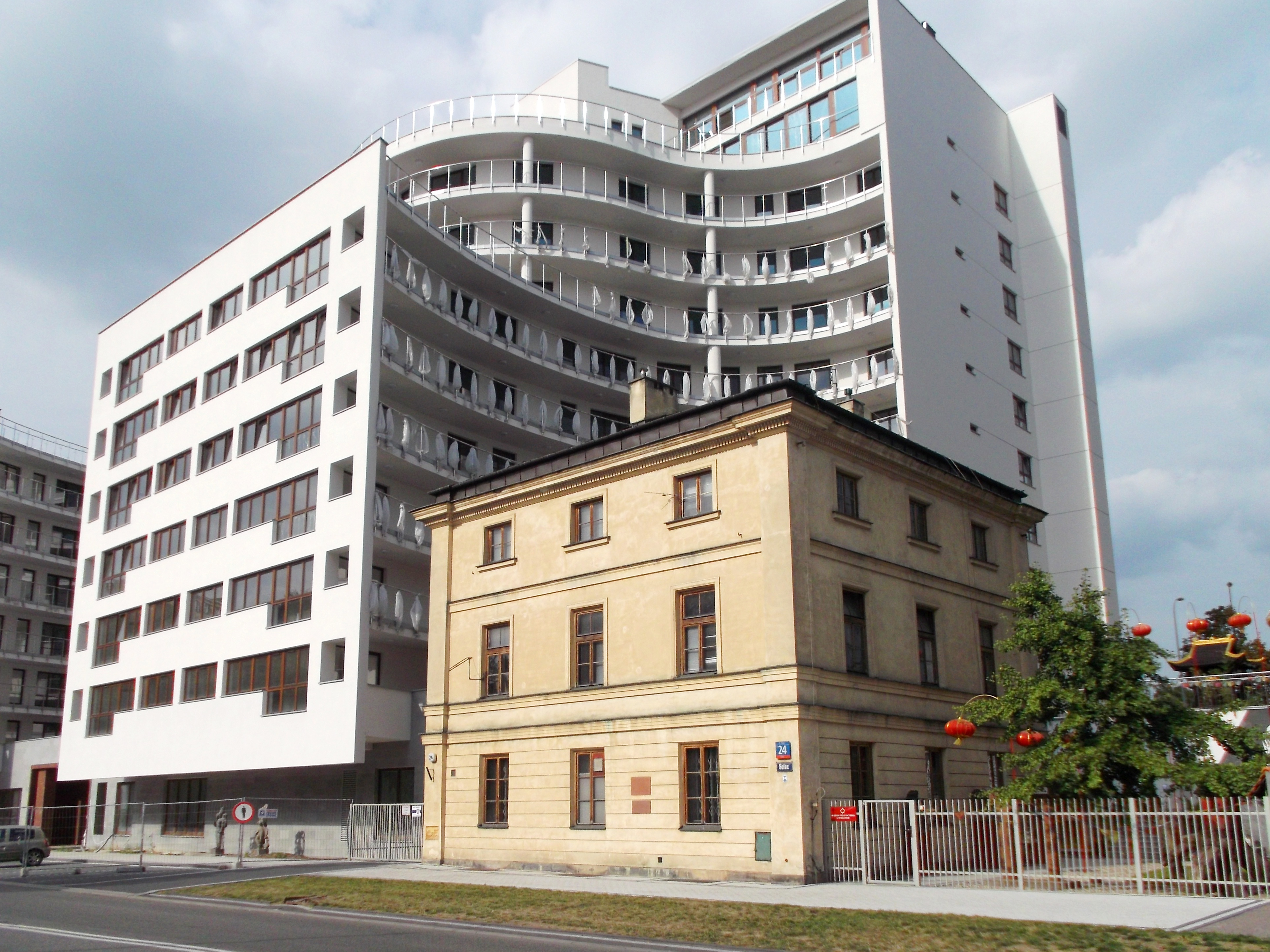 Former slaughterhouse, 24 Solec Street in Warsaw (Poland)